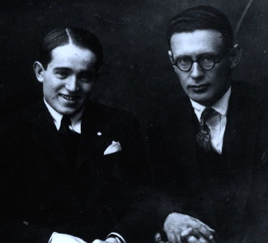 Chess players Salo Flohr and Mikhail Botvinnik during their match in USSR, year 1933